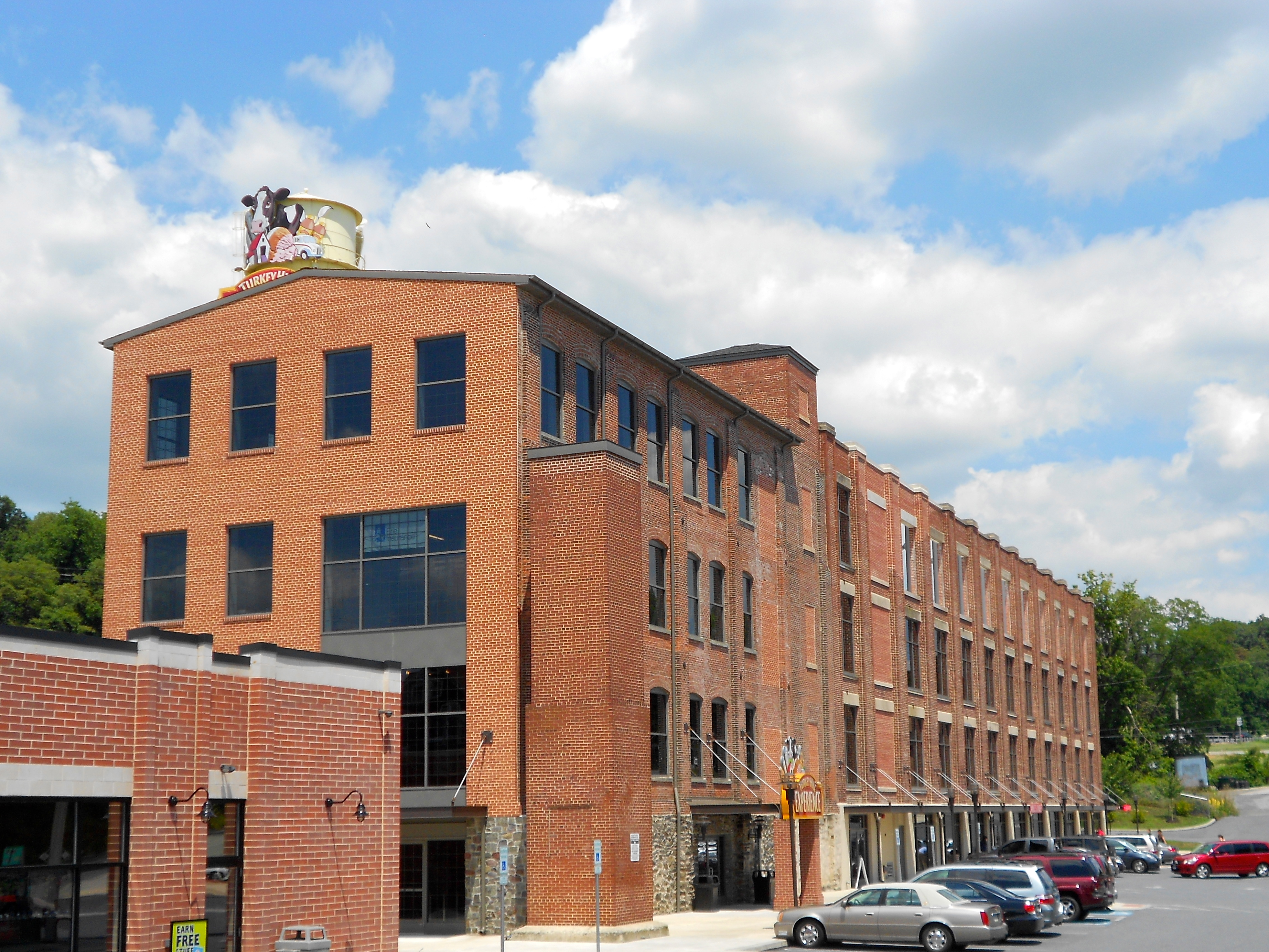 Old warehouse in Columbia, Lancaster County, Pennsylvania, converted via "adaptive reuse, into the "Turkey Hill Experience", offices and restaurants. Just off US 30 on the Sesquahanna River, by the bridge.